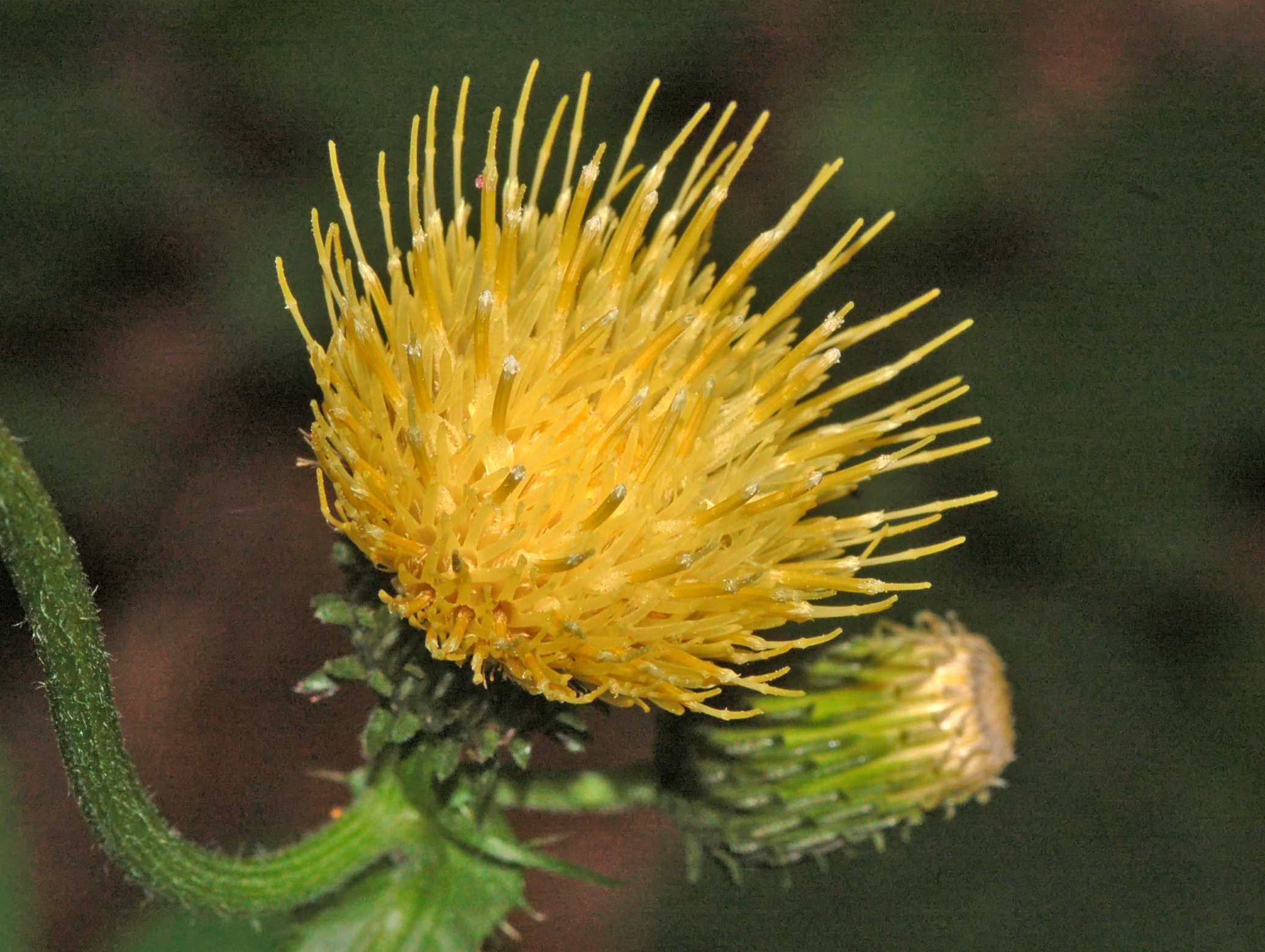 Flowerhead of Cirsium erisithales at Piani di Praglia, Genova, Italy